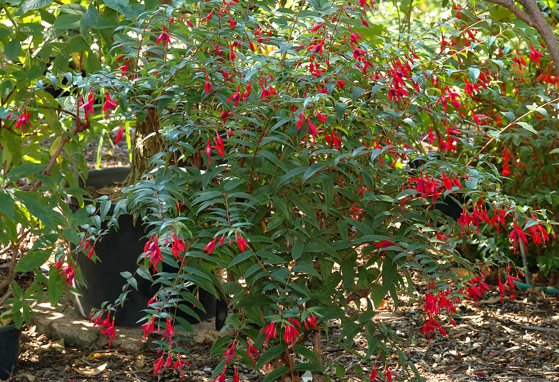 This image shows a plant of the species Fuchsia regia.